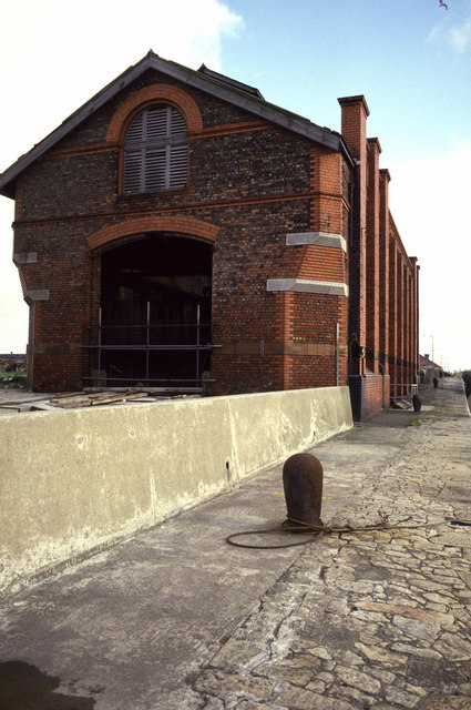 Huskisson Dock steam impounding station This was derelict with the Mersey in the bottom. It did contain the remains of four spectacular steam pumping engines. This building has gone without trace.